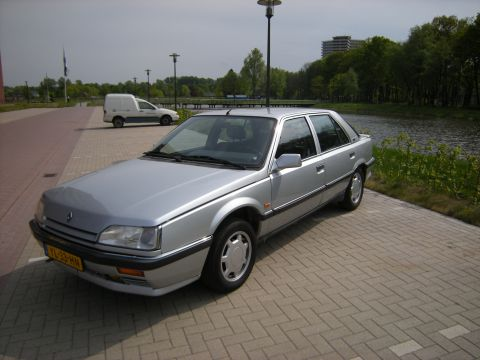 Renault 25_TXE_1990_640